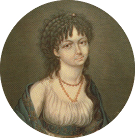 Lucile de Chateaubriand (1764-1804), French writer, sister of François-René de Chateaubriand